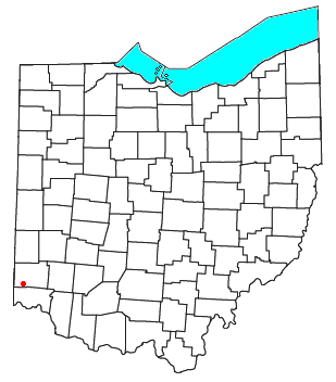 Locator map of the unincorporated community of Shandon in Butler County, Ohio, United States.